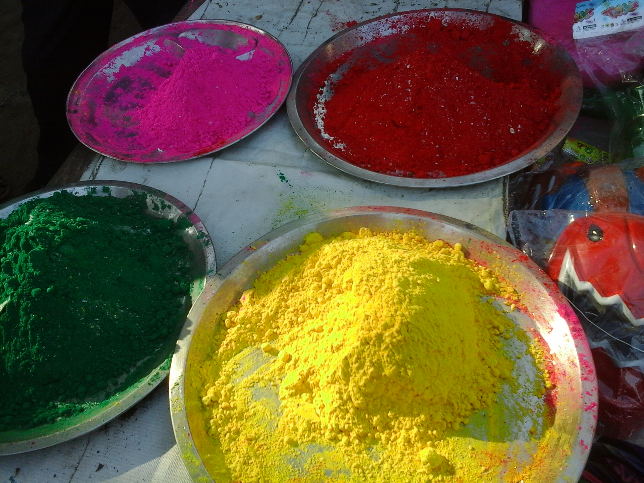 Different colors on Colors festival Holi